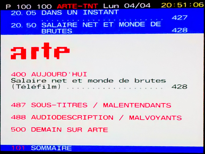 ARTE France last teletext "home" page before the death of teletext in France.